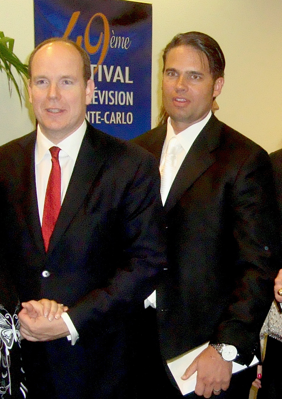 Photograph taken at the 2009 Monte-Carlo Television Festival in Monaco. Pictured: Albert II and film producer Arick Wierson. Location. June, 2009, Monte-Carlo, Principality of Monaco.